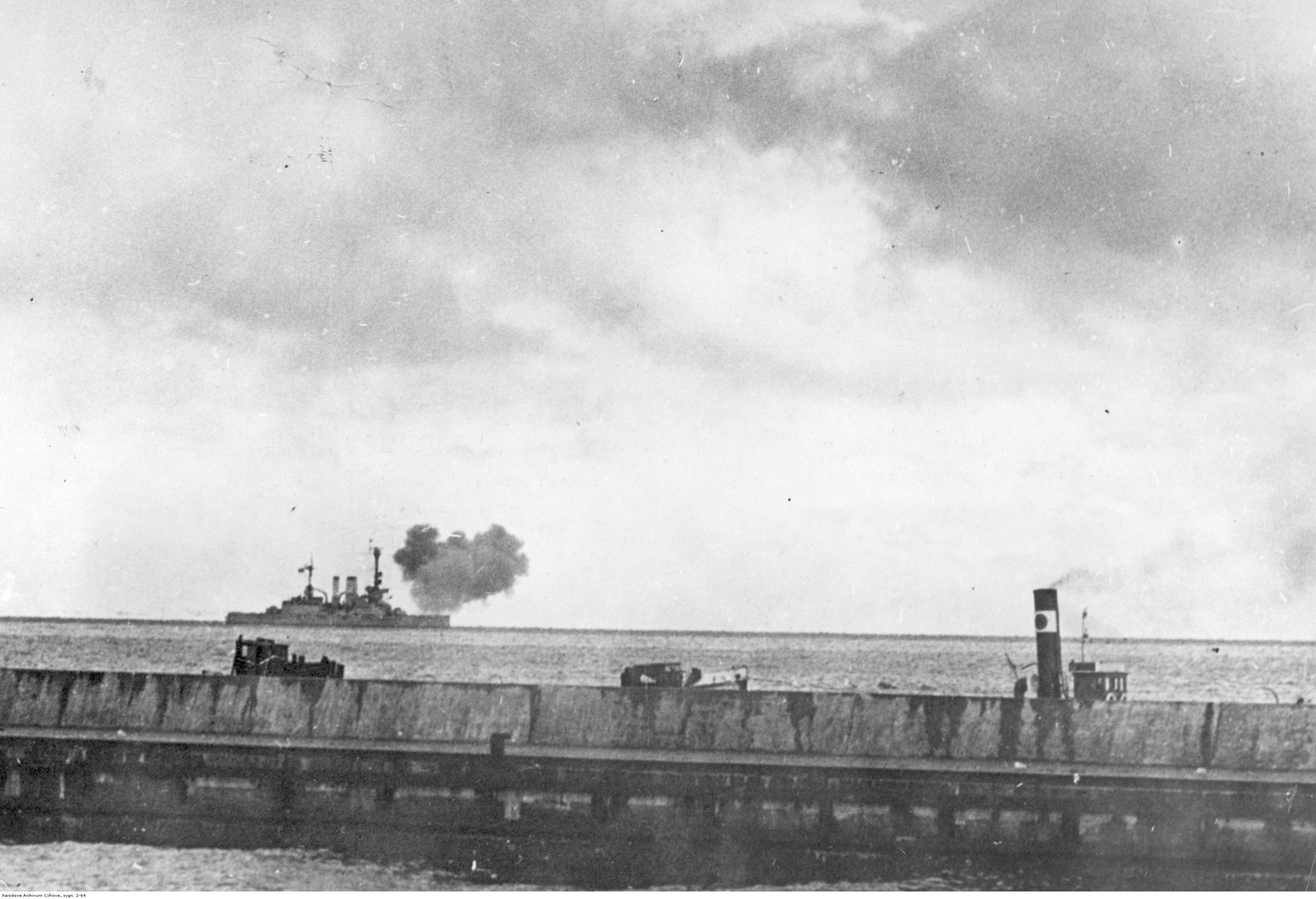 German battleship "Schlesien" fires at Hel Fortified Area.